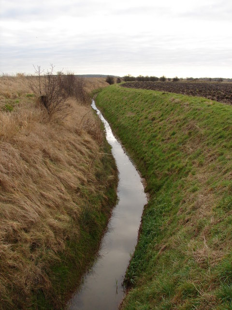 Norton New Beck Drain Looking South